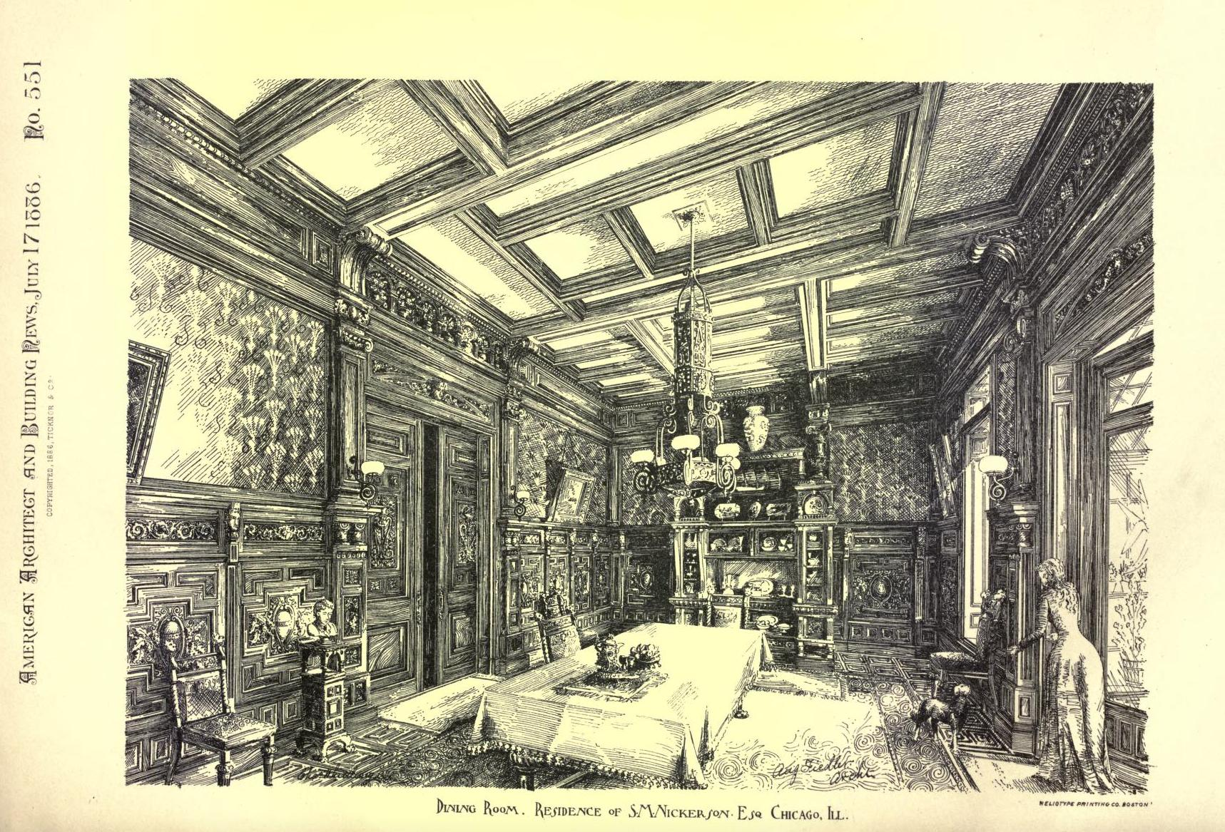 Woodcut of the dining room of Samuel Nickerson, 30 E. Erie St. Chicago, IL. Interior woodwork and decoration by Addison and Fiedler, architects